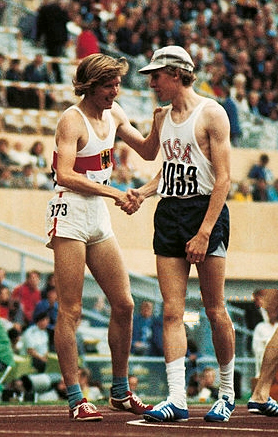 The American racer David Wottle receives compliments from Franz-Josef Kemper of West Germany on the Olympic field, shortly after Wottle won the Men's 800 metres final race. Munich, September 2, 1972.